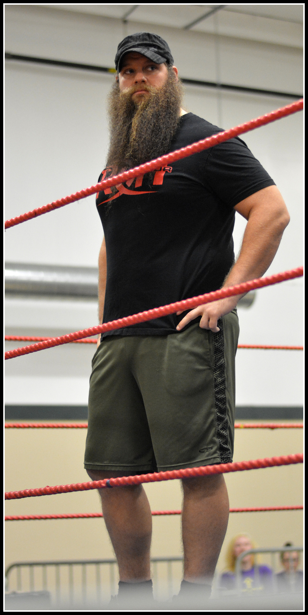 Hanson at an XWA Wrestling event in Cranston Rhode Island